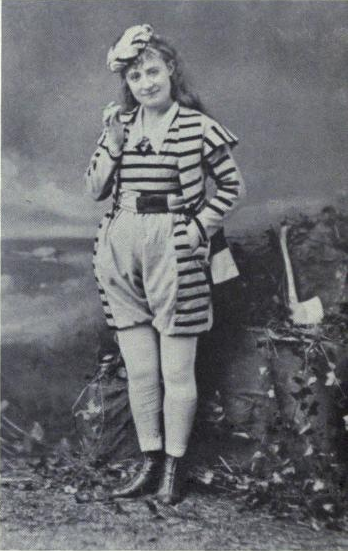 Scan of photograph of Lydia Thompson in Forty Thieves (1869).